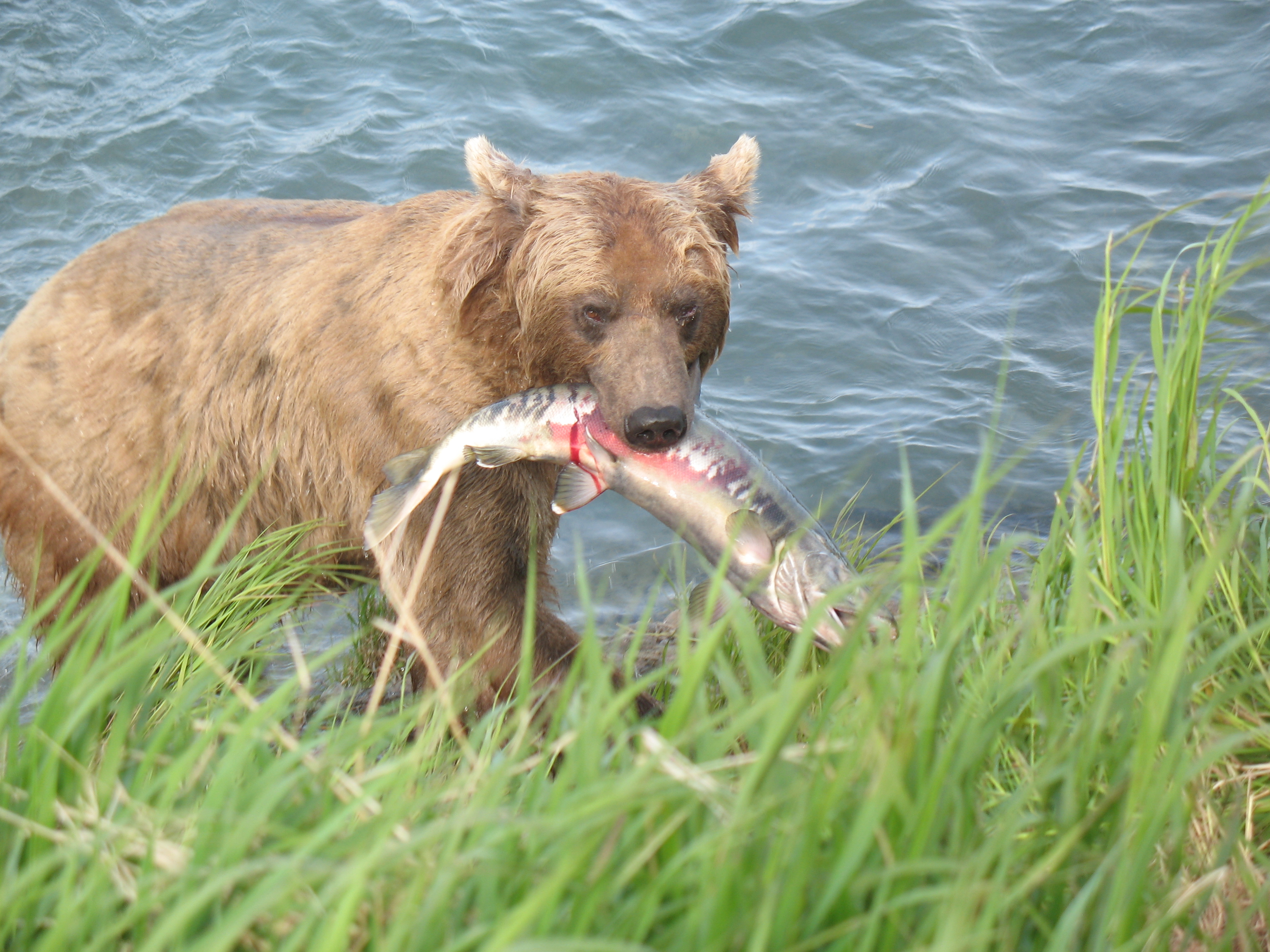 Bear predation on salmon can be high in many Alaskan rivers. Brown bears Ursus arctos and Chum Salmon Oncorhynchus keta are managed concurrently in McNeil River State Game Sanctuary by Alaska Dept. of Fish and Game to benefit the salmon, bears, commercial fishers, and provide unparalleled close-up bear viewing and photography opportunities for the public.